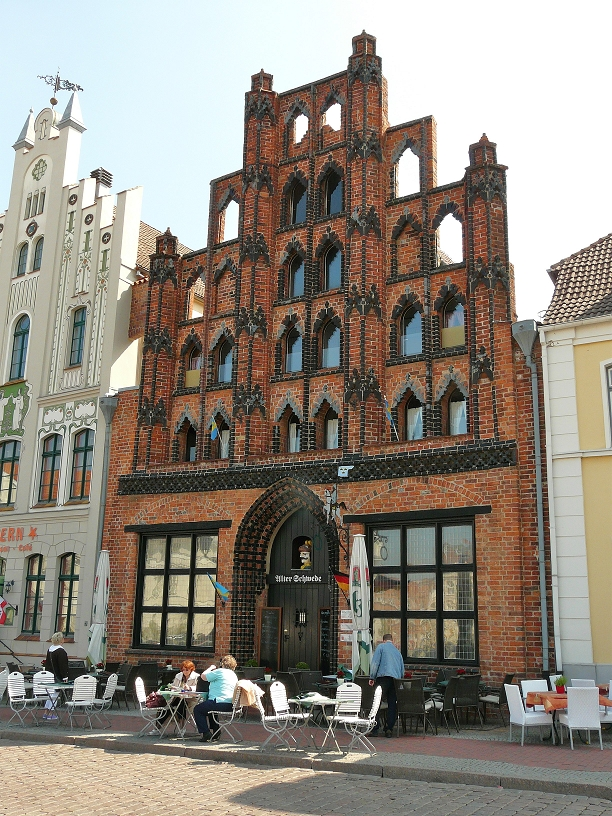 Alter Schwede in Wismar (Oldest Gothic Houses in Wismar)